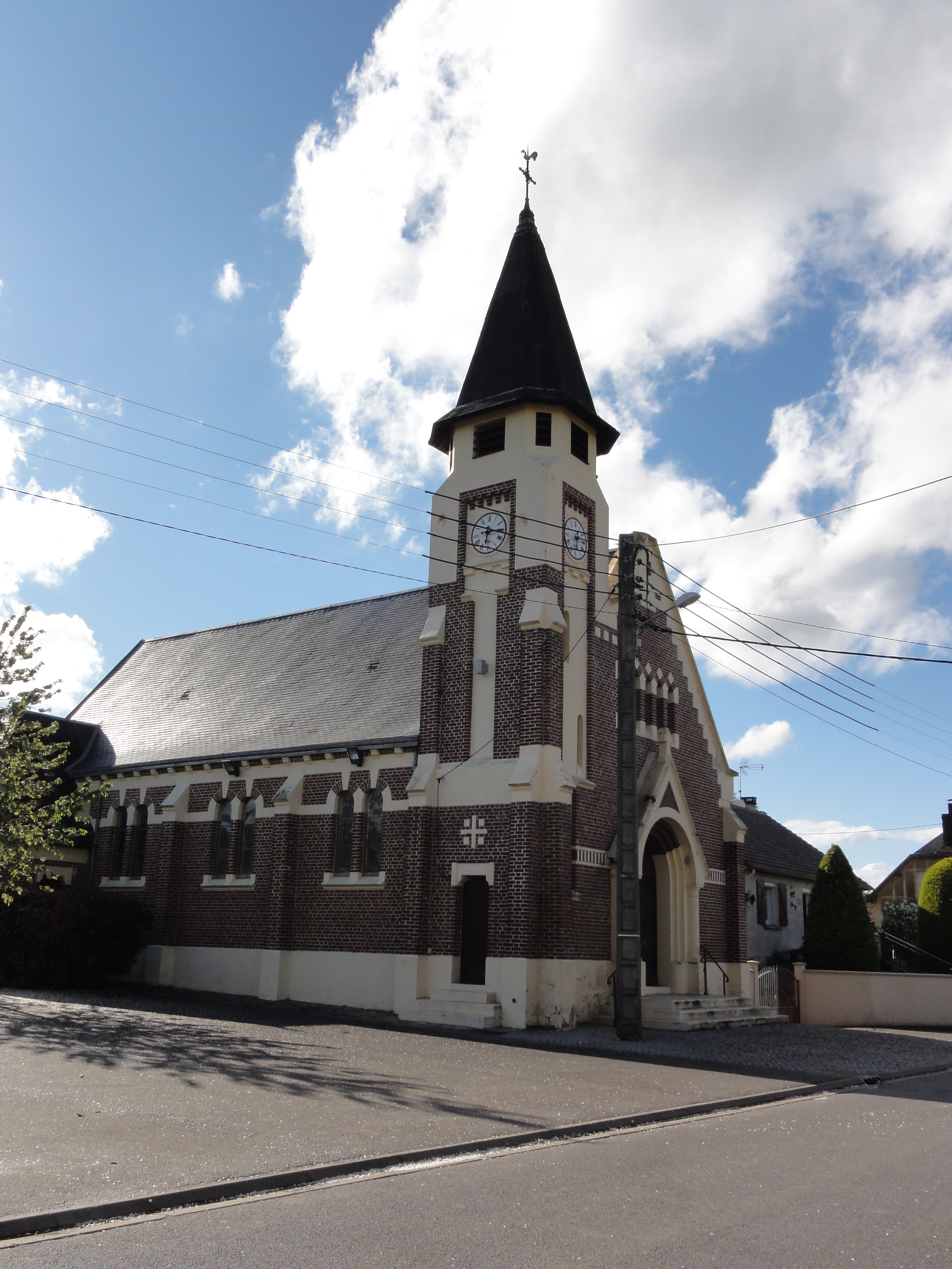 Mennessis (Aisne) église